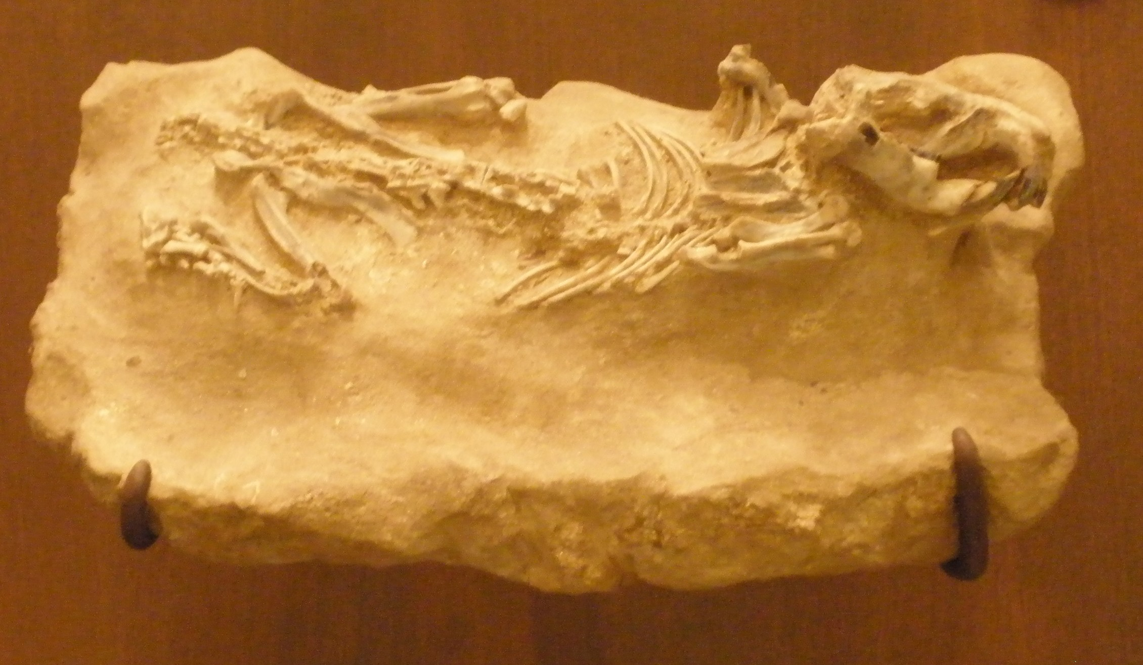 Skeleton of Euhapsis barbouri, a fossil beaver